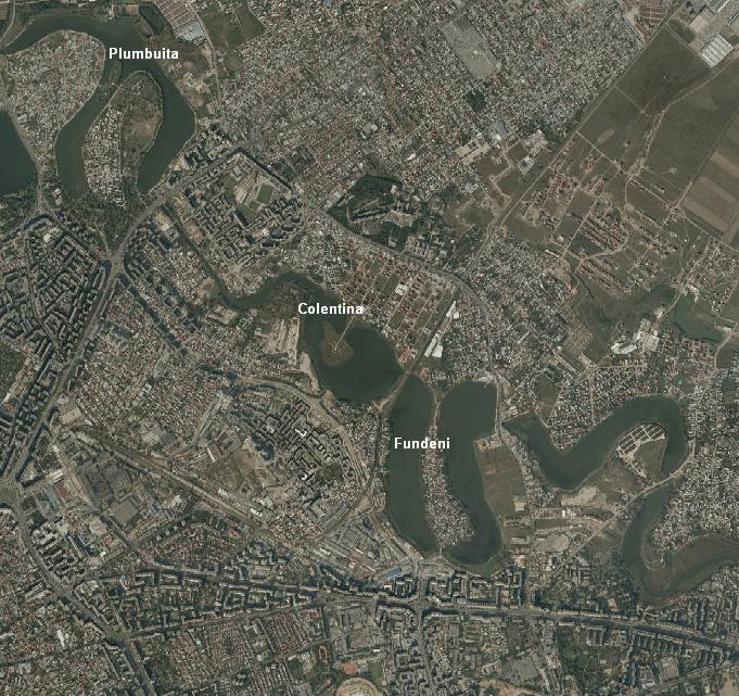 Colentina Lake and Fundeni Lake NavSat